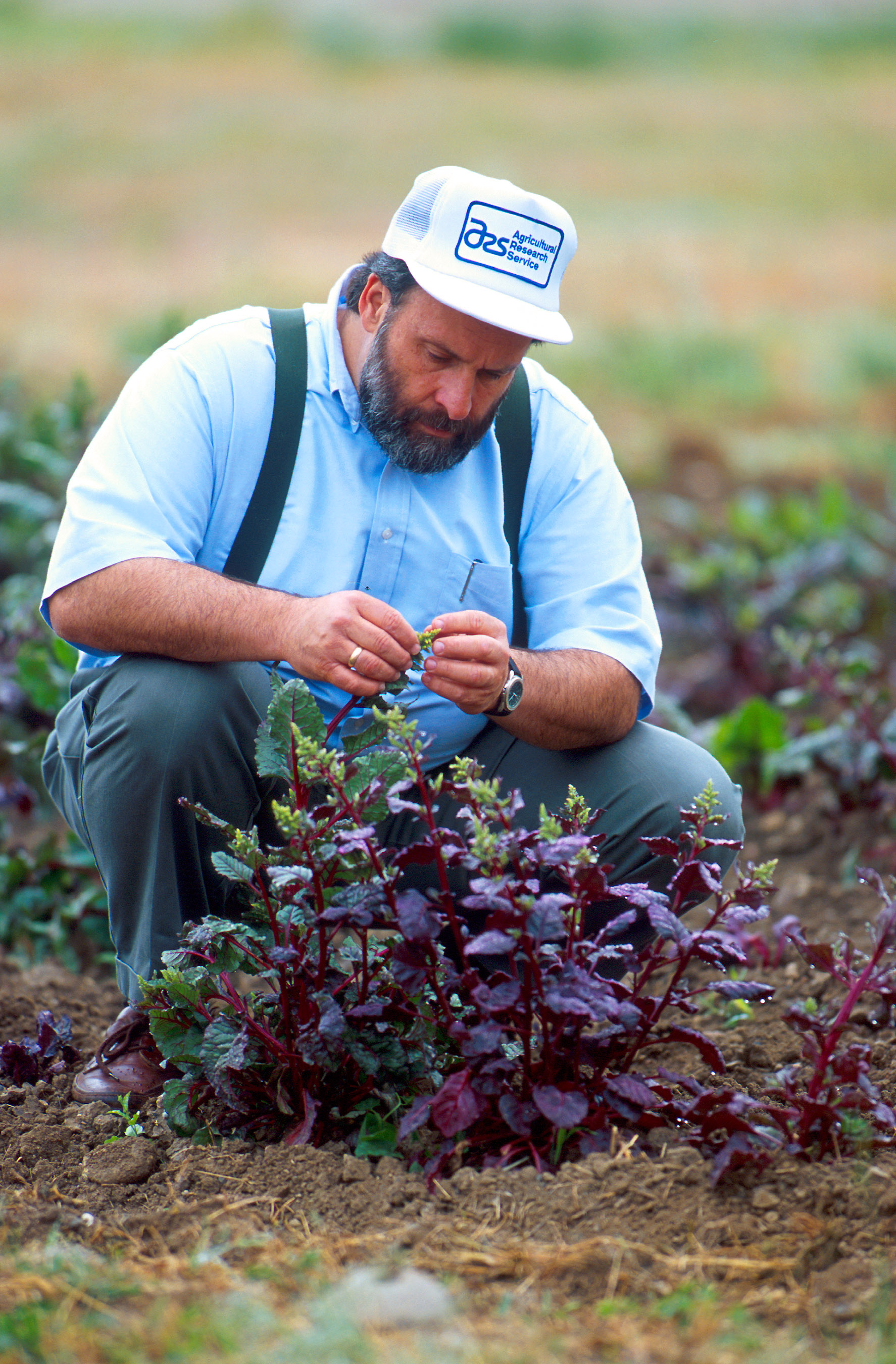 Image Number K8992-1 Root-rotting fungi can weaken, stunt, or kill sugar beet plants. Here, geneticist Leonard Panella inspects sugar beet plants, which are resistant to the fungal disease Rhizoctonia root rot, for pollen fertility. Photo by Scott Bauer.